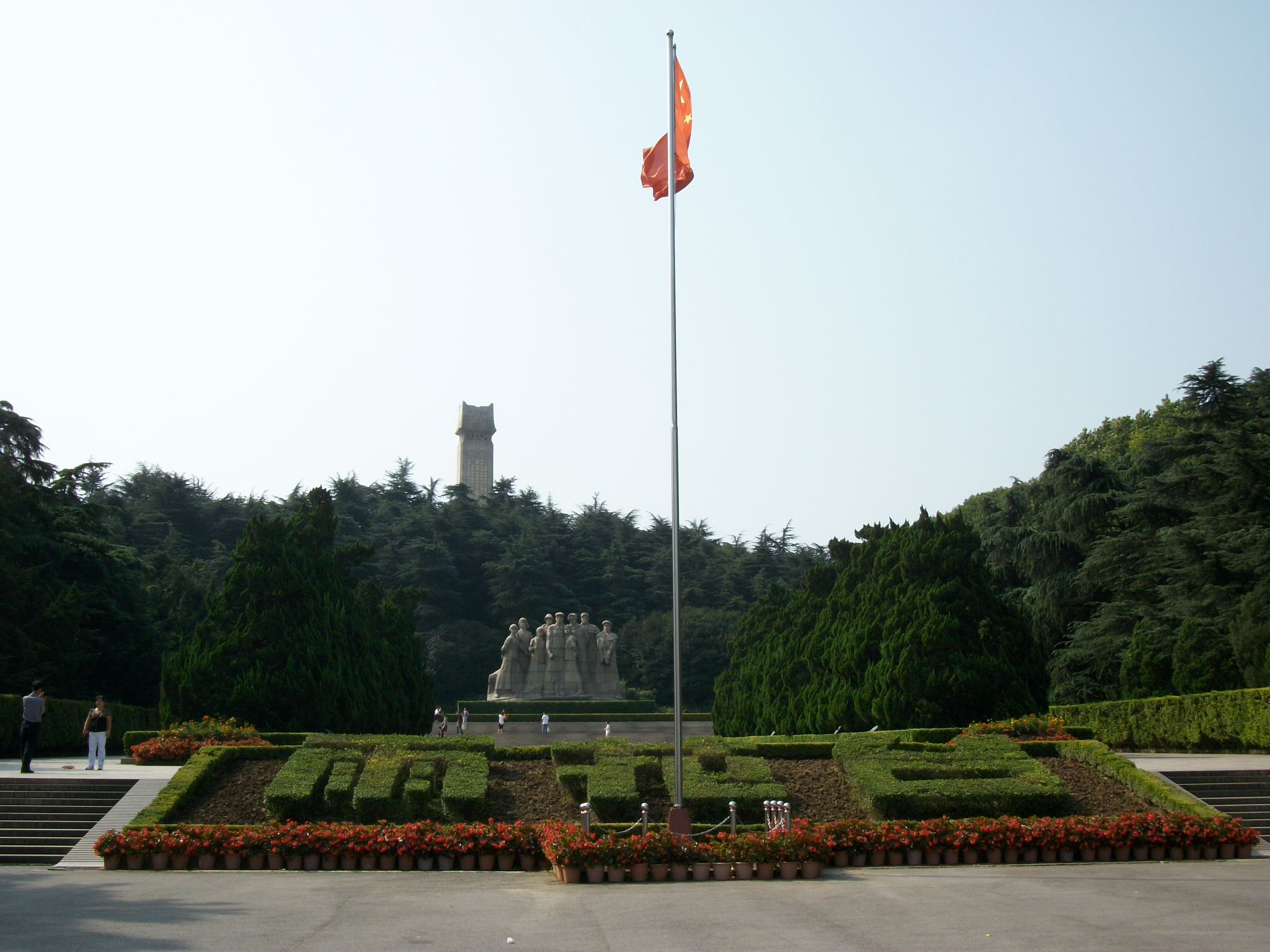 Yuhuatai (雨花台).